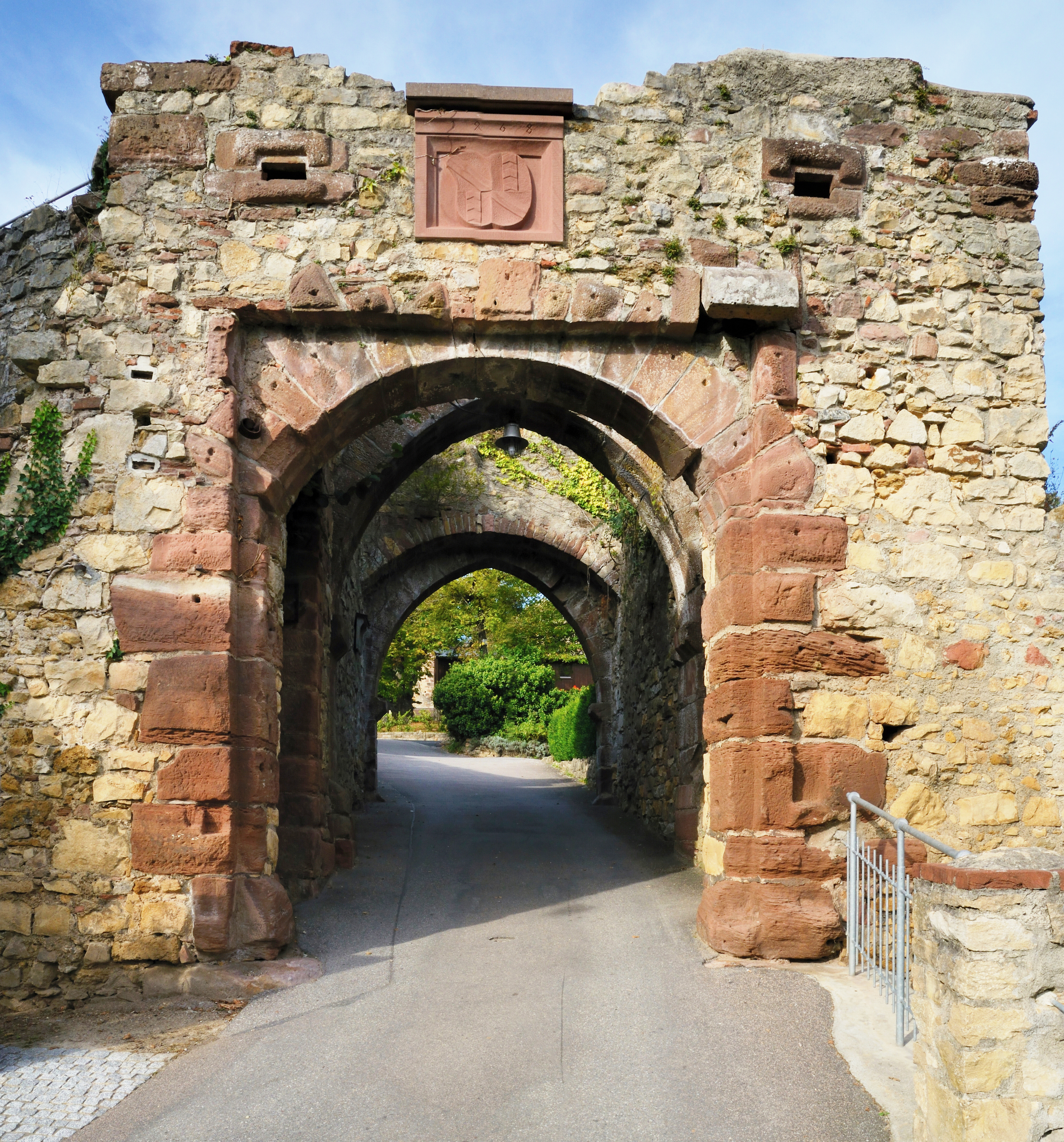 Rötteln Castle: gateway